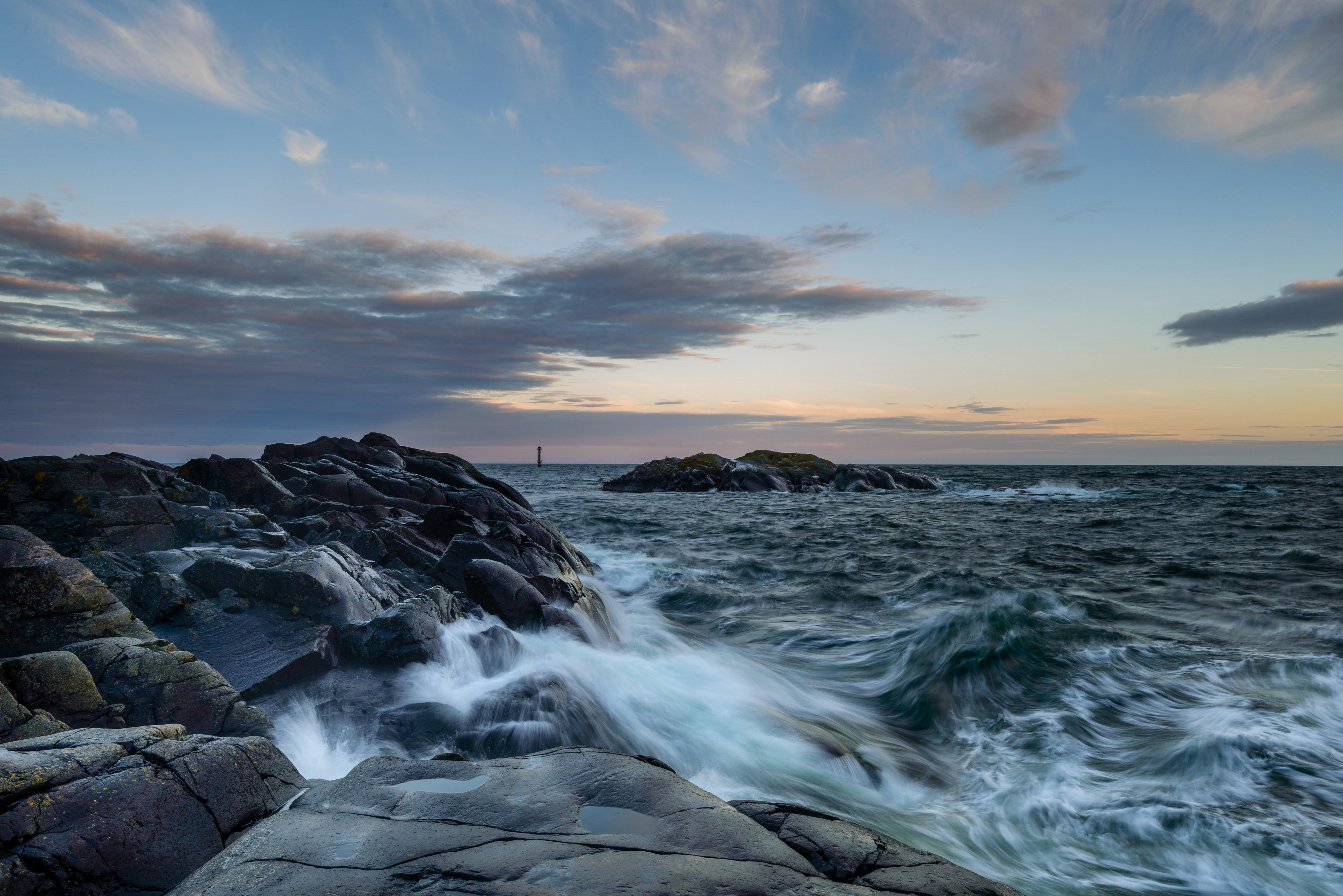 Landscape at Landsort (Öja) in Stockholm archipelago.